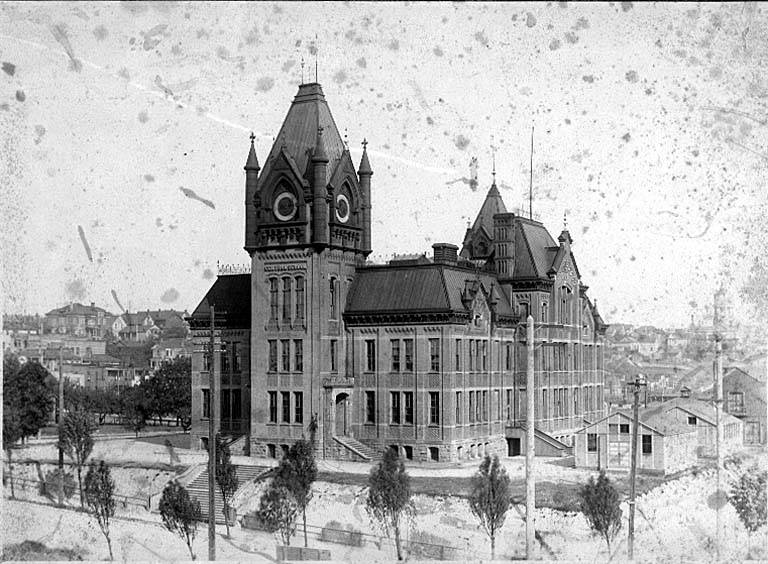 Central School, Madison Street between 6th Ave. and 7th Ave., probably between 1889 and 1910 Subjects (LCTGM): Clock towers--Washington (State)--Seattle; Architectural decorations & ornaments--Washington (State)--Seattle Subjects (LCSH): Central School (Seattle, Wash.); School buildings--Washington (State)--Seattle; Madison Street (Seattle, Wash.